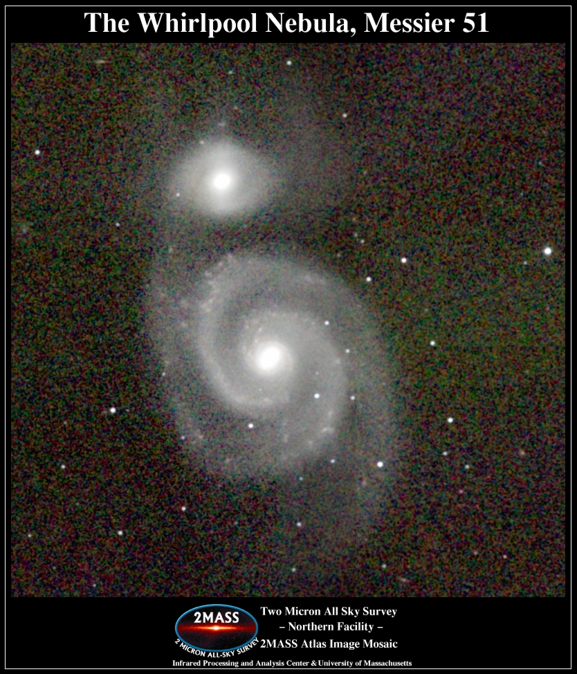 The Whirlpool Nebula, Messier 51